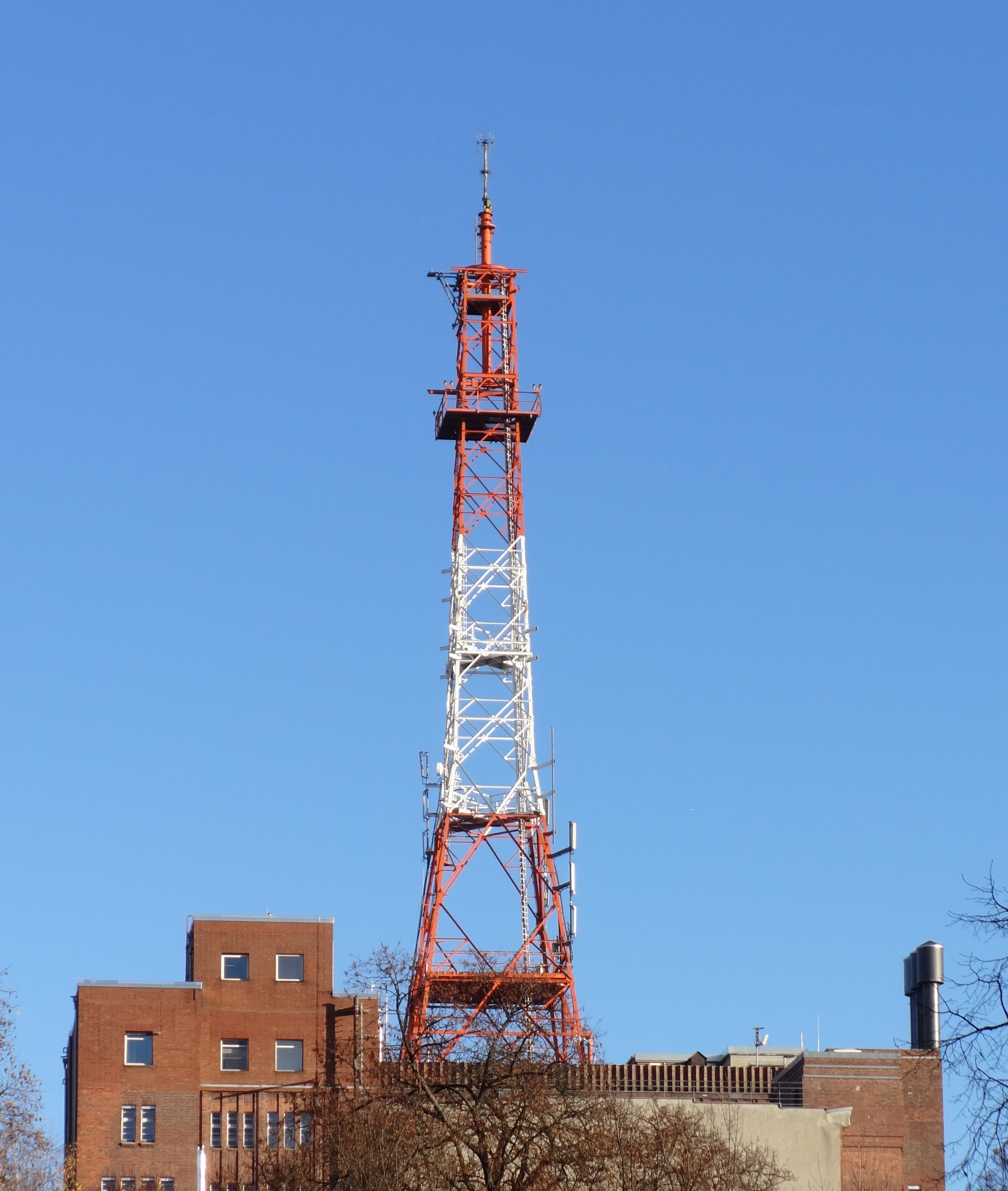 Berlin in autumn